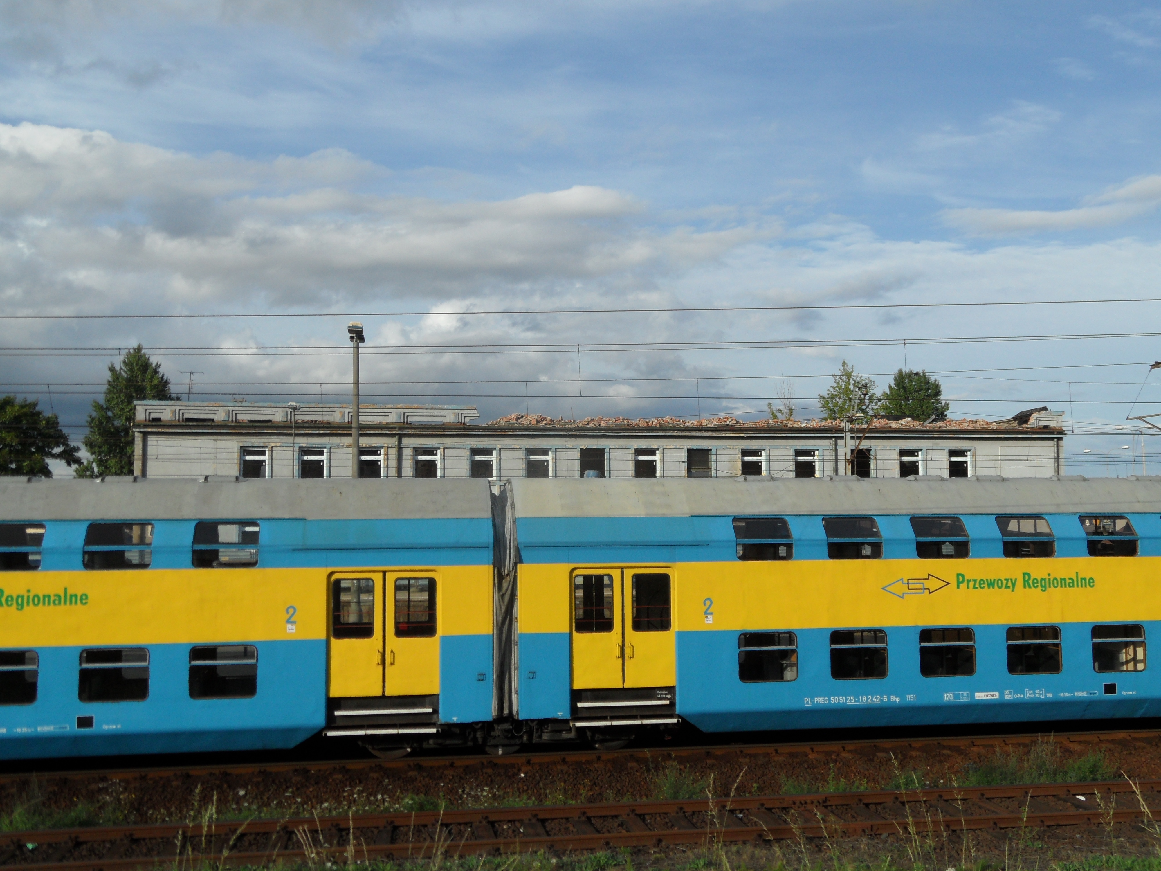 Attic demolition, railway station in Rumia, Poland, 2013